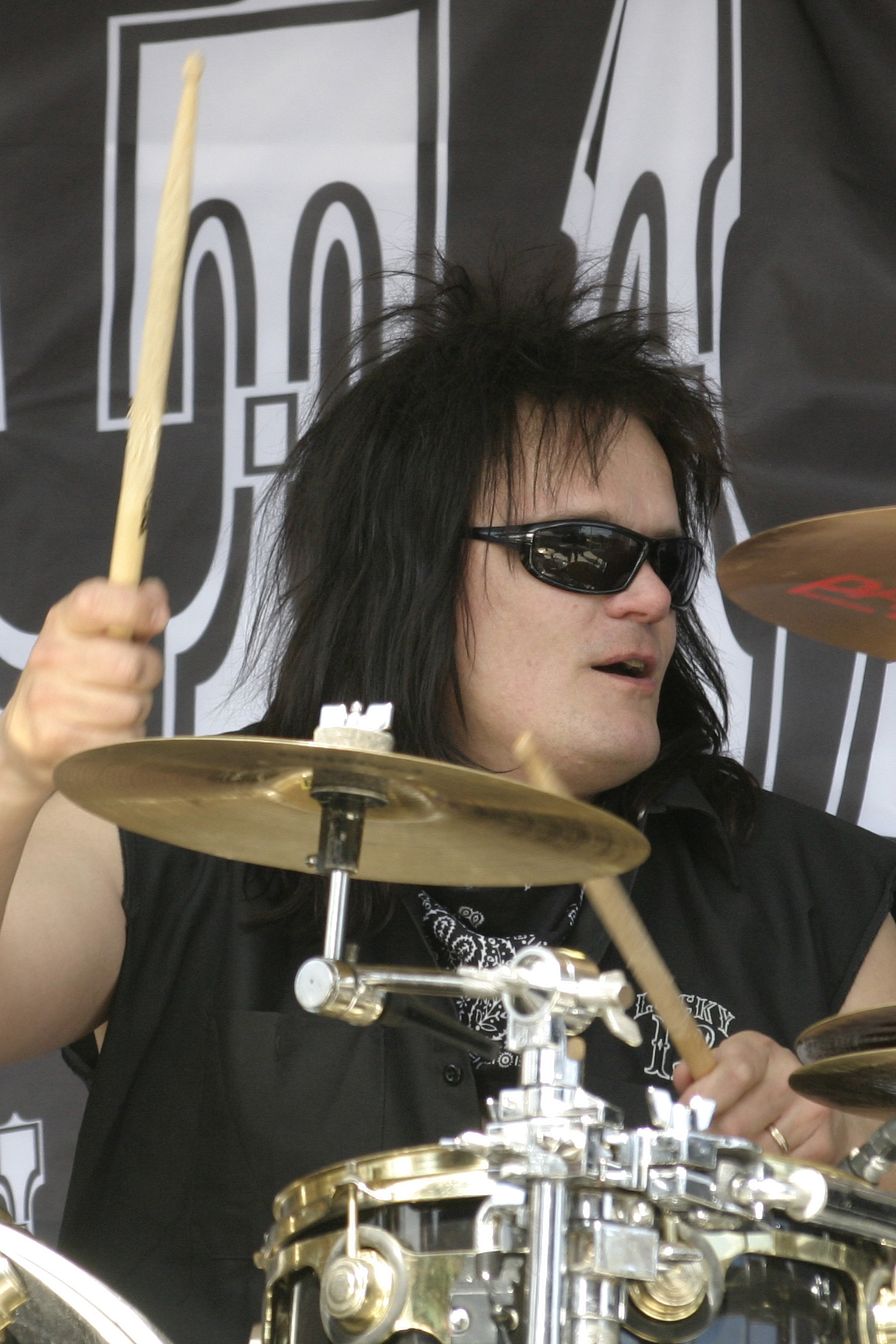 Teijo Erkinharju